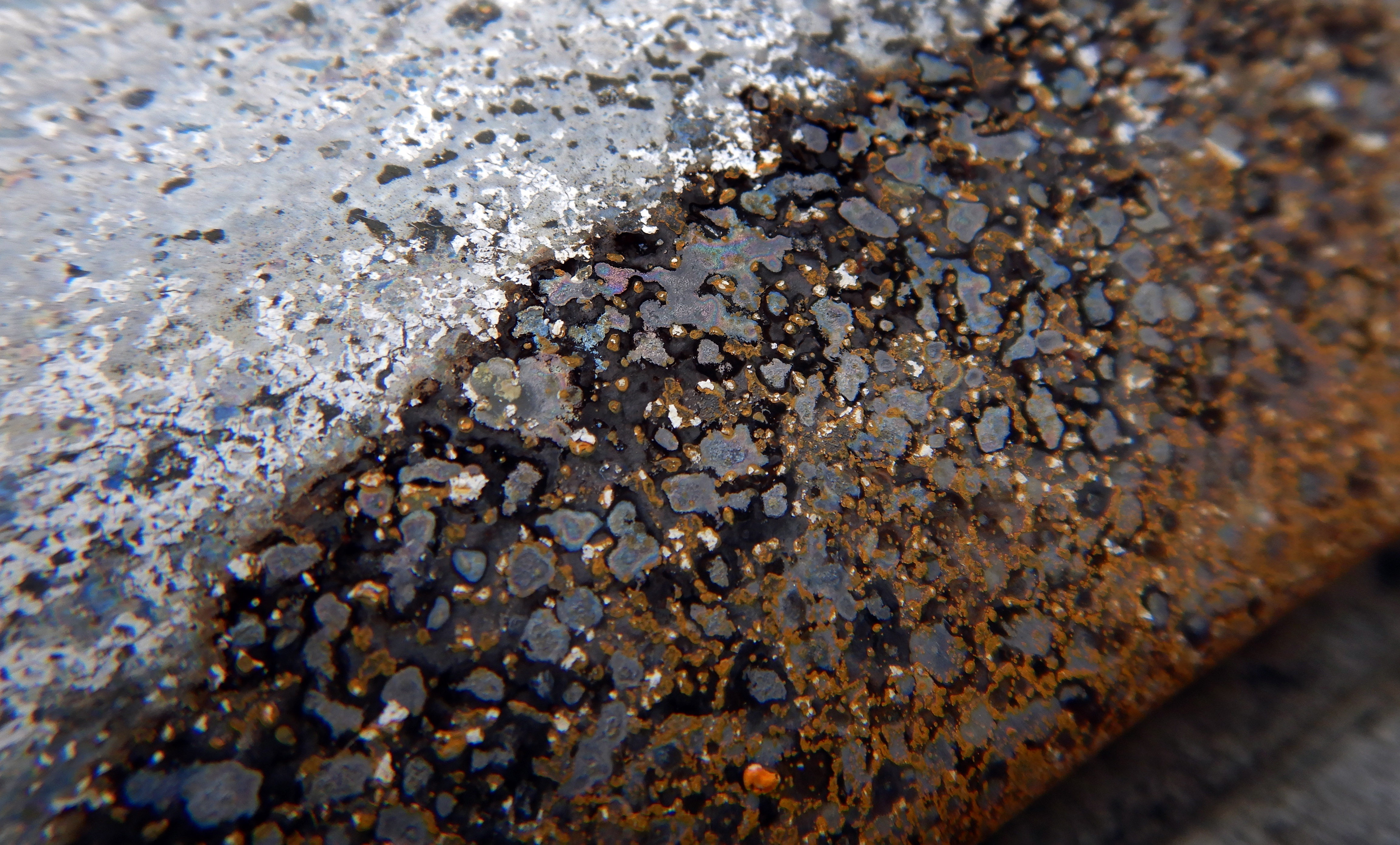 metal of burned car (BMW)